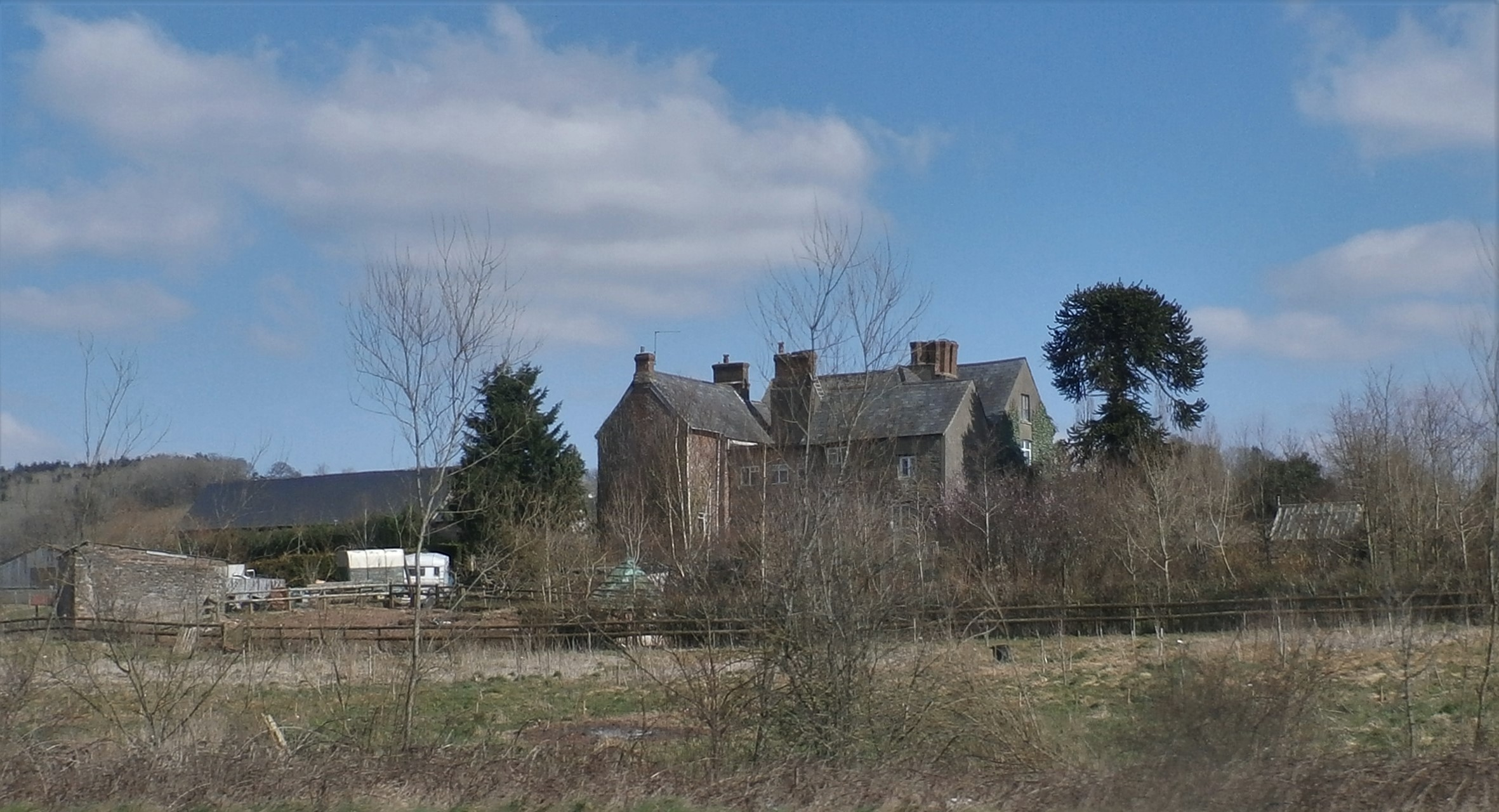 Treworgan Manor, Raglan, Monmouthshire